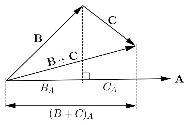 distributive law for scalar product